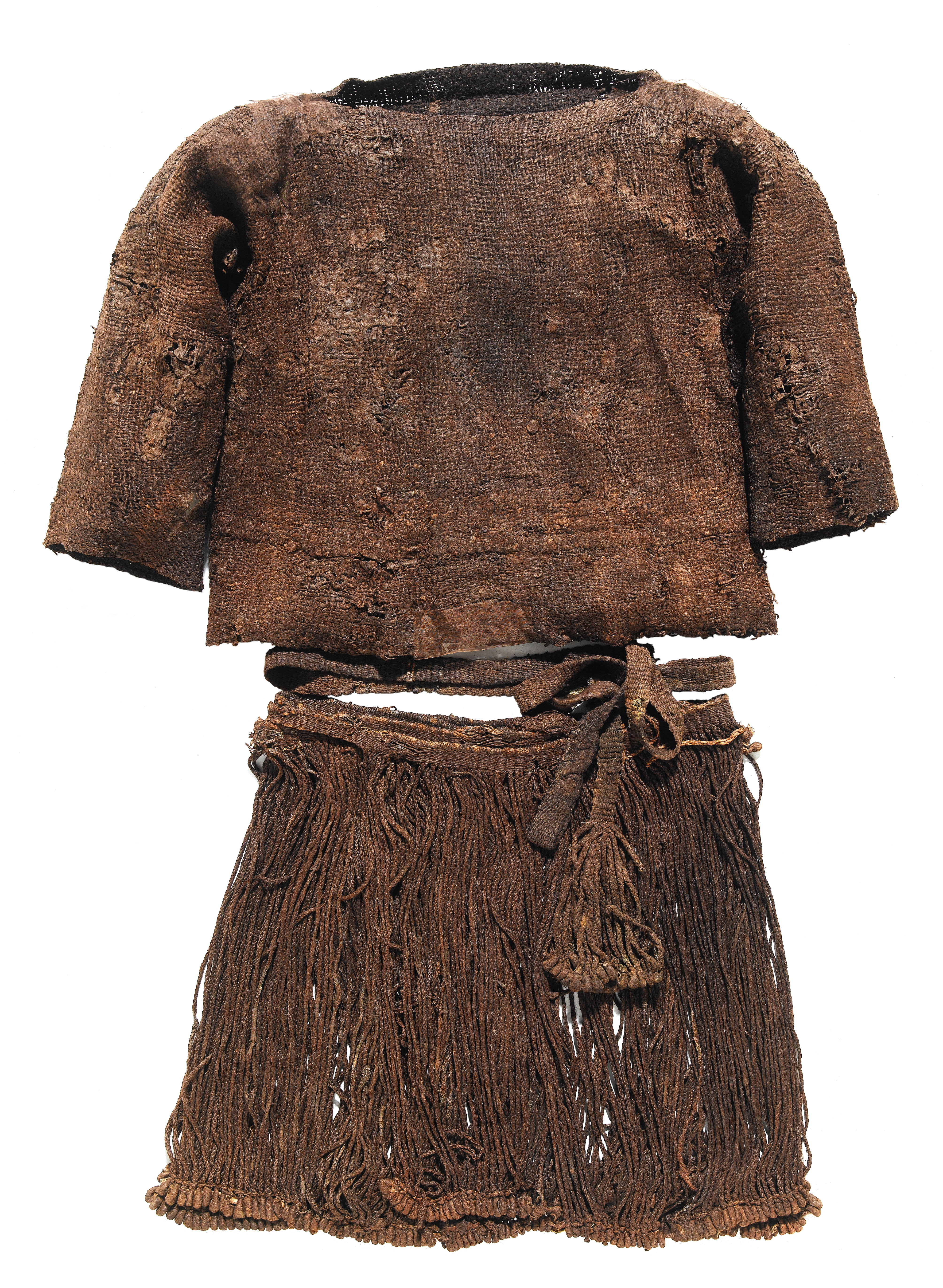 Egtved girls outfit in the grave, Nationalmuseet, Danmark